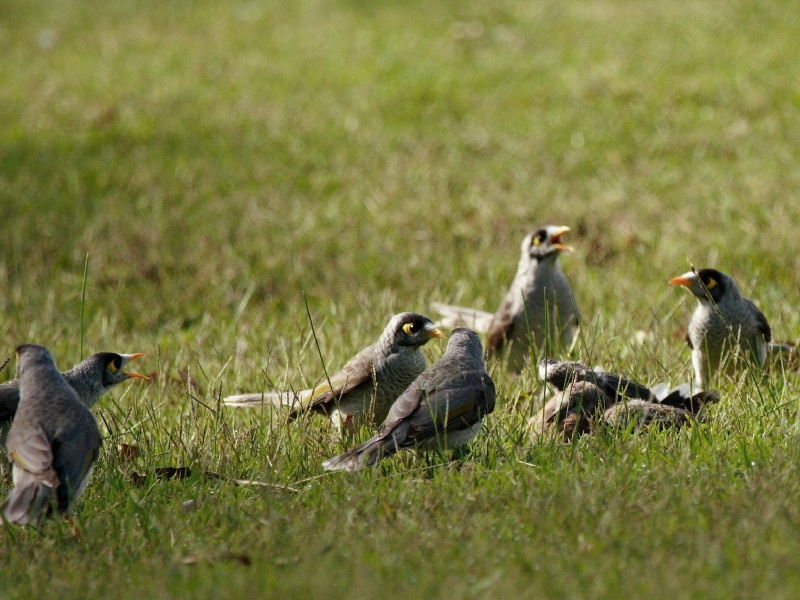 Mob of Noisy Miners attacking a Spotted Turtle Dove.